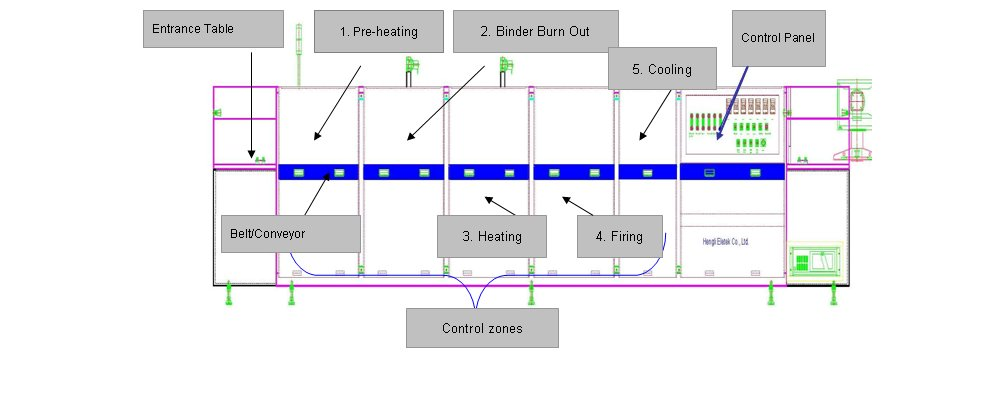 A Typical Conveyor Furnace Schematic